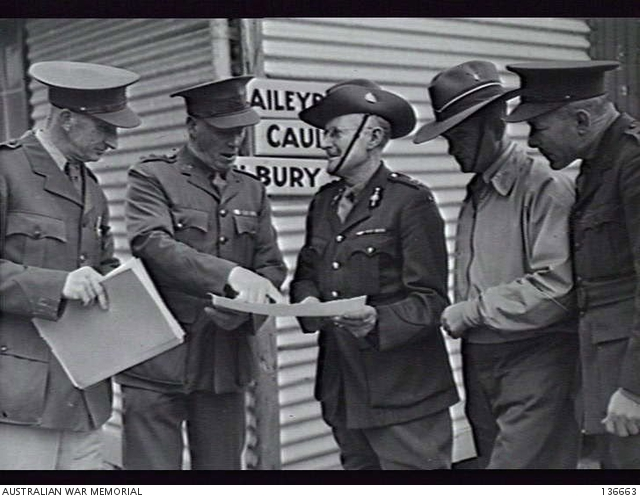 This image shows a group of Senior Officers (taken on 29 August 1942) at a Special training camp conducted “somewhere in Victoria” for some 2,000 members of school cadet units from a wide range of suburban and rural, private and state schools, conducted by the Australian Military Forces. Those in the photograph are (L to R): (a) Cadet Lieutenant Alexander Cecil Sellars (1902-1984), Headmaster and OIC of the Cadet Unit at Albury Grammar School, (b) Cadet Lieutenant Frank Brown (1882-1972), ex-Royal Military College at Sandhurst, teacher and OIC of the Cadet Unit at Brighton Grammar School, (c) Cadet Lieutenant Hugh Gemmell Lamb-Smith (1889-1951), who had landed at Anzac Cove on 25 April 1915, teacher and OIC of the Cadet Unit at Caulfield Grammar School, (d) Cadet Lieutenant Ernest Albert William Logan (1903-, Headmaster and OIC of the Cadet Unit at Hamilton and Western District College (awarded the British Empire medal in June 1979), and (e) Lieutenant Herbert McDonell Shaw (VX80952), Second AIF (ex-student of Caulfield Grammar, and Member of the Caulfield Grammar School Council 1939-1978).